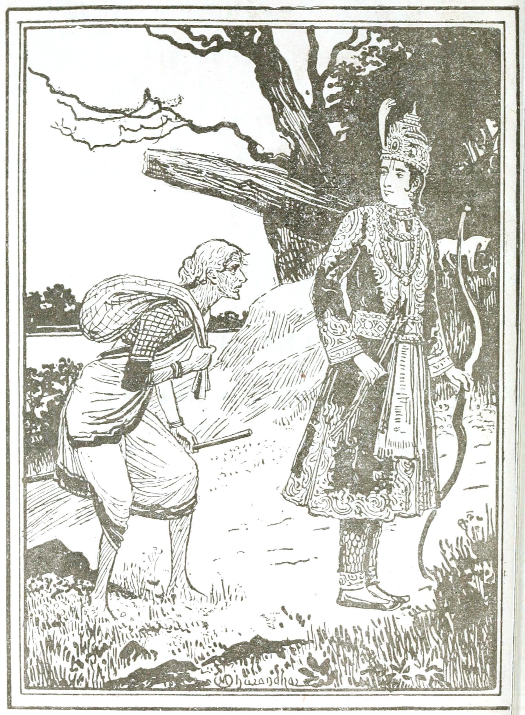 Tales from the Indian Epics FP